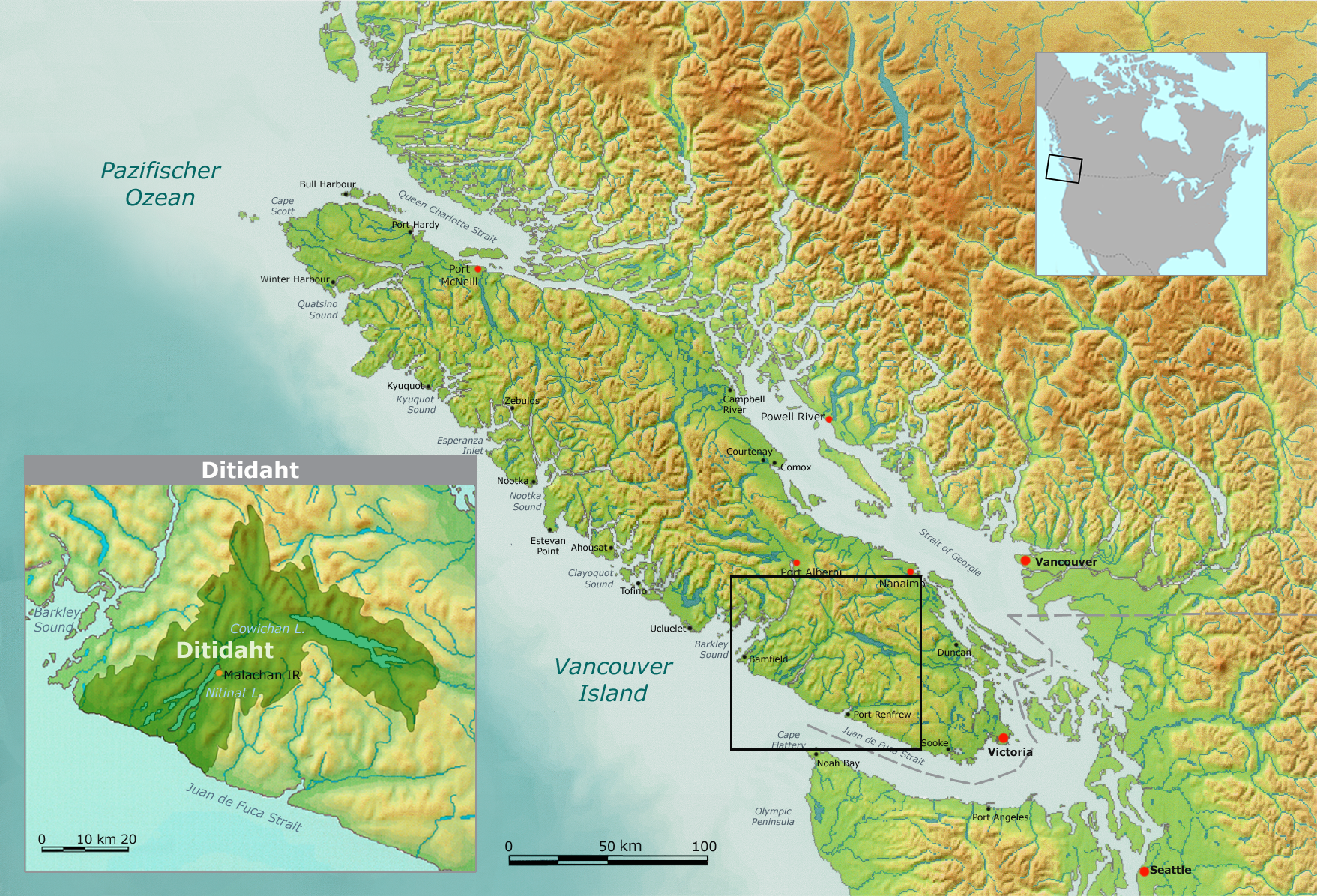 Map of Ditidaht tribal territory